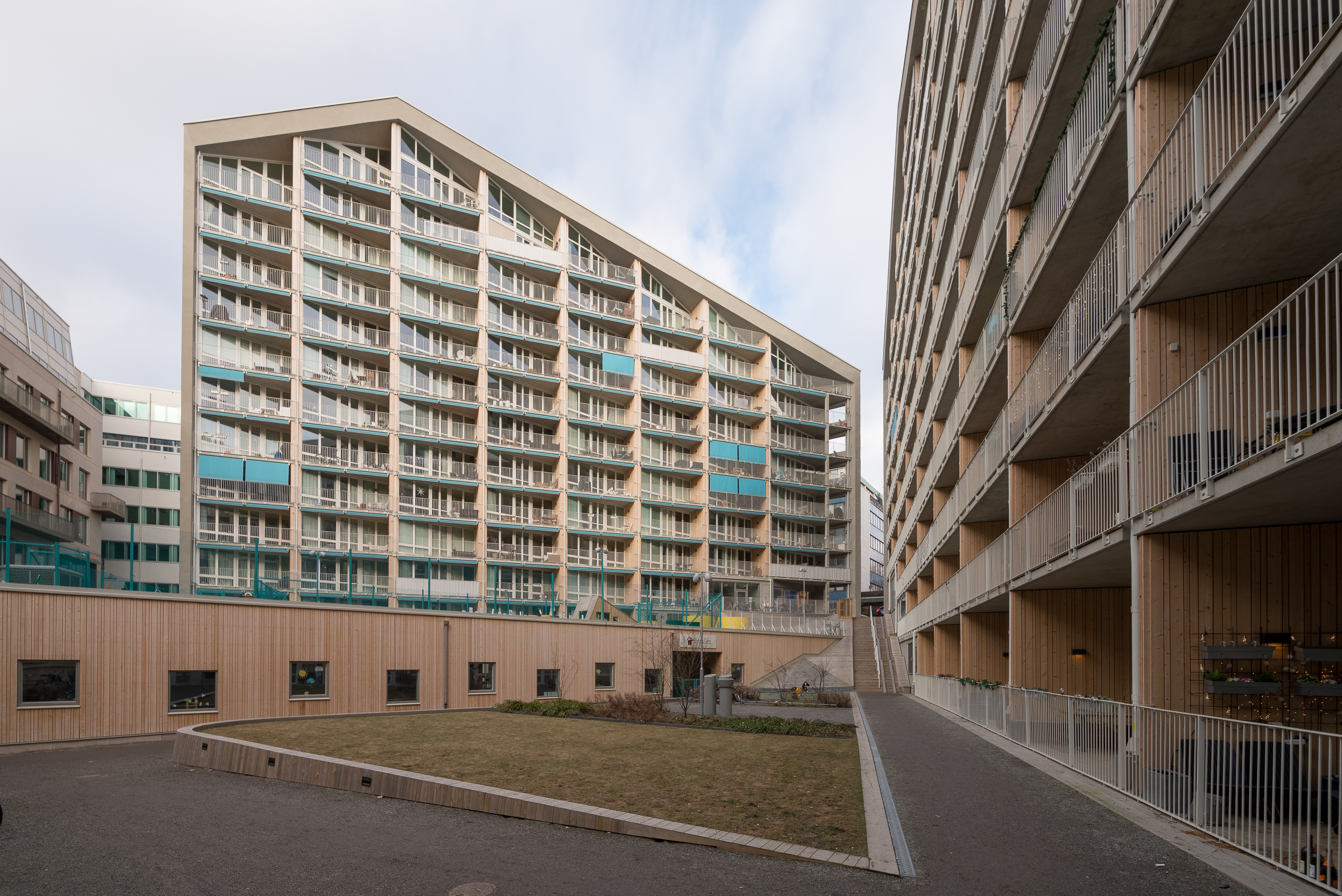 Residential project "Västermalms atrium" in Stadshagen, Stockholm. Built 2013-2015. Architect: Joliark.